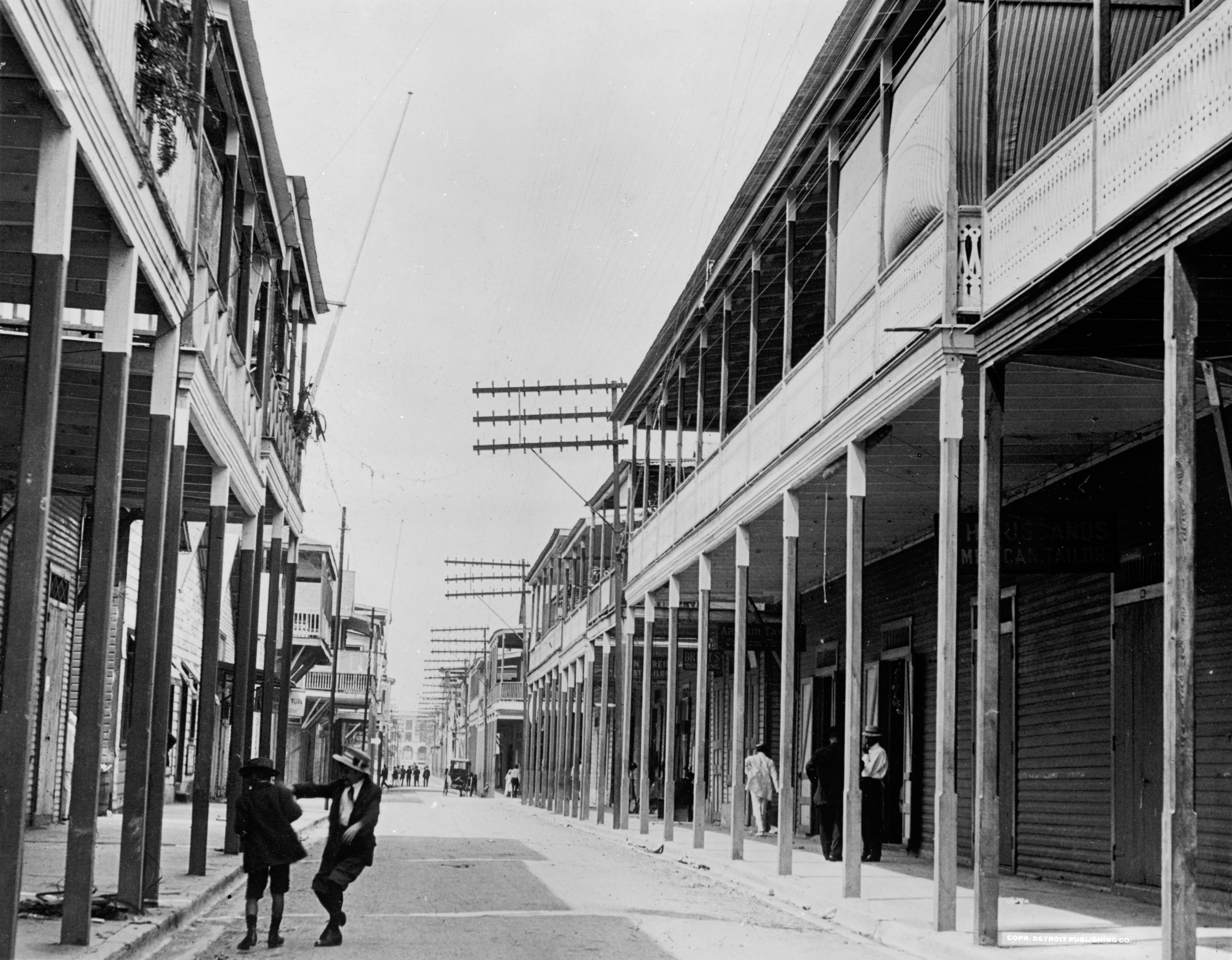 Street scene, Colón, Panama